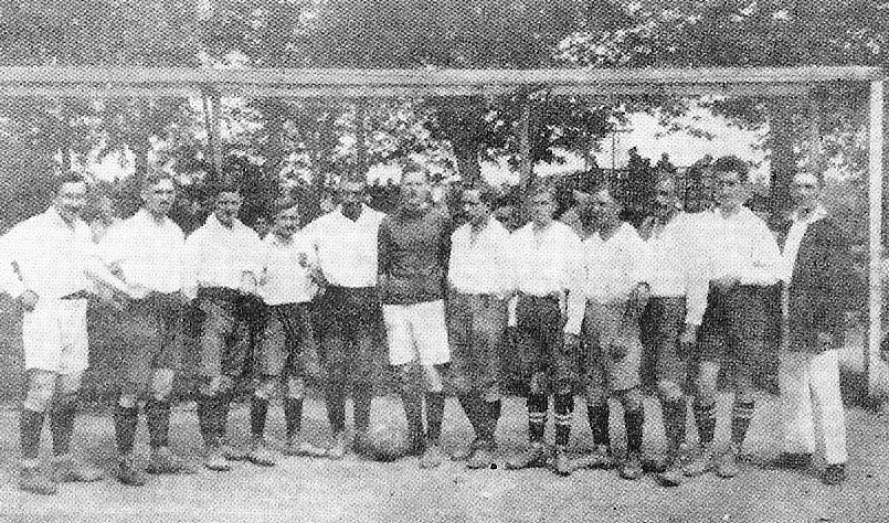 RC Strasbourg, 1919 with (from left to right) : Lams, Burkle A., Schuele, Charele, Tiedemann, Meyer P., Pfeffer, Gibat, Meyer L., Spehner, Belling E., Becker L.